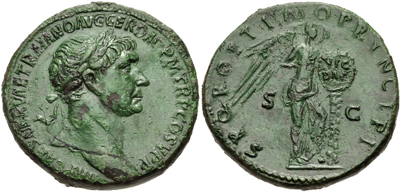 Trajan. AD 98-117. Æ Sestertius (32mm, 25.17 g, 6h). Rome mint. Struck circa AD 103. IMP CAES NERVAE TRAIANO AVG GER DAC P M TR P COS V P P, laureate head right. S P Q R OPTIMO PRINCIPI, Victory standing right, left foot on helmet, attaching shield inscribed VIC/DAC to palm tree. RIC II 528. Good VF, green patina, minor roughness.